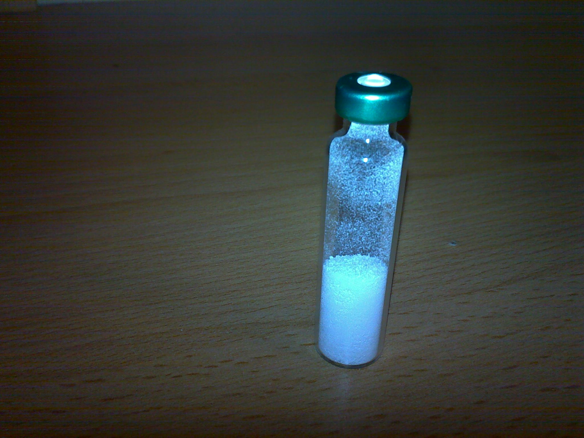 100% Hyaluronan acid (final product afeter lyophylization)